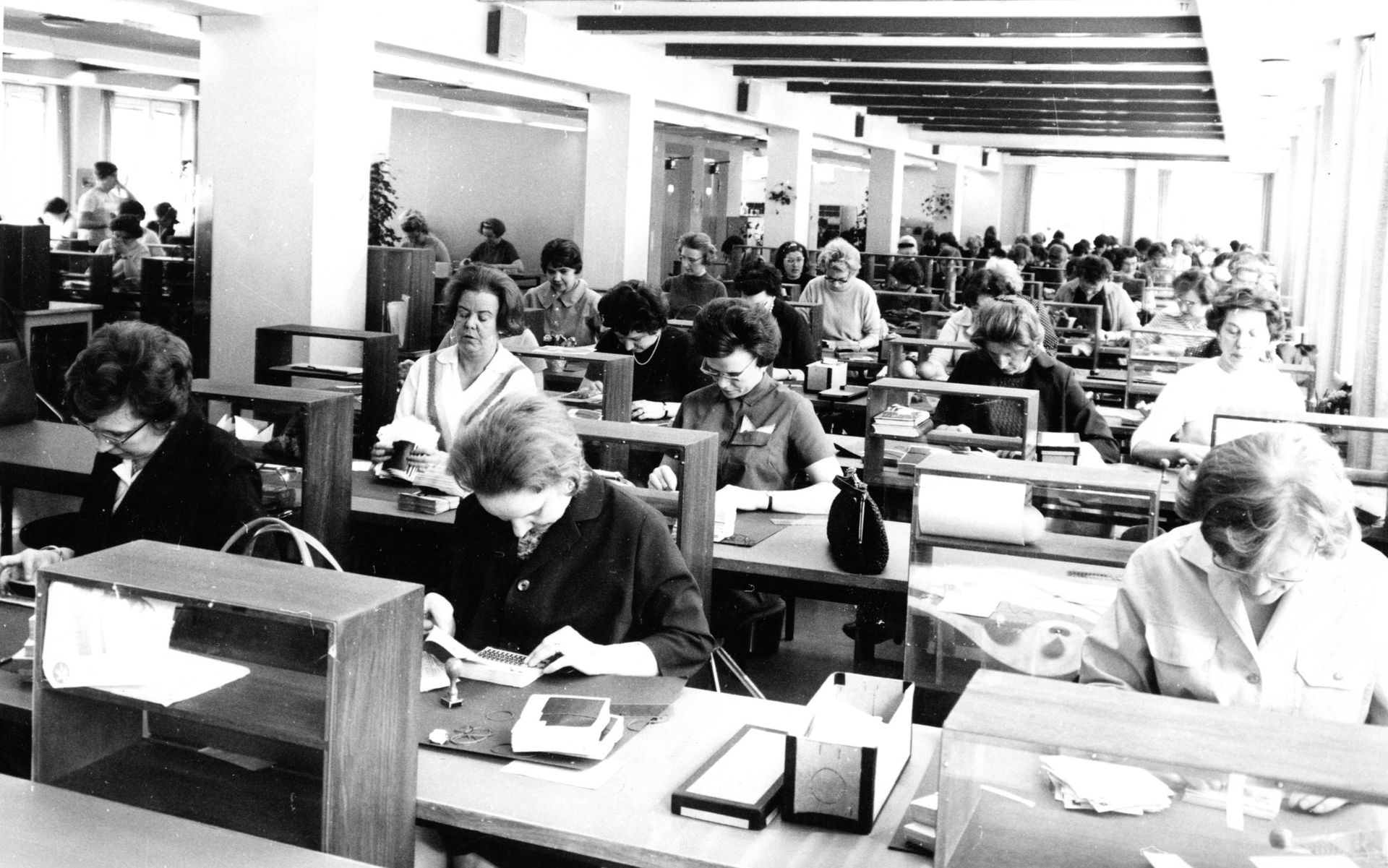 Photograph of Veikkaus employees checking Finnish lottery coupons. They checked almost one million coupons every week.